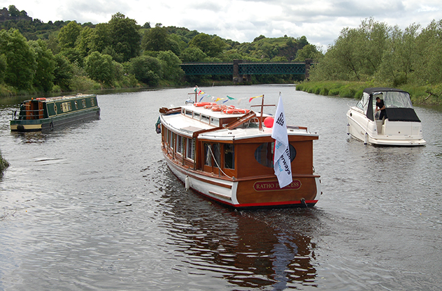 River Forth at Riverside, Stirling Looking from the Stirling Rowing Club towards the railway bridge. Red Grouse, Ratho Princess, and a Rinker 250 in the foreground (L to R).